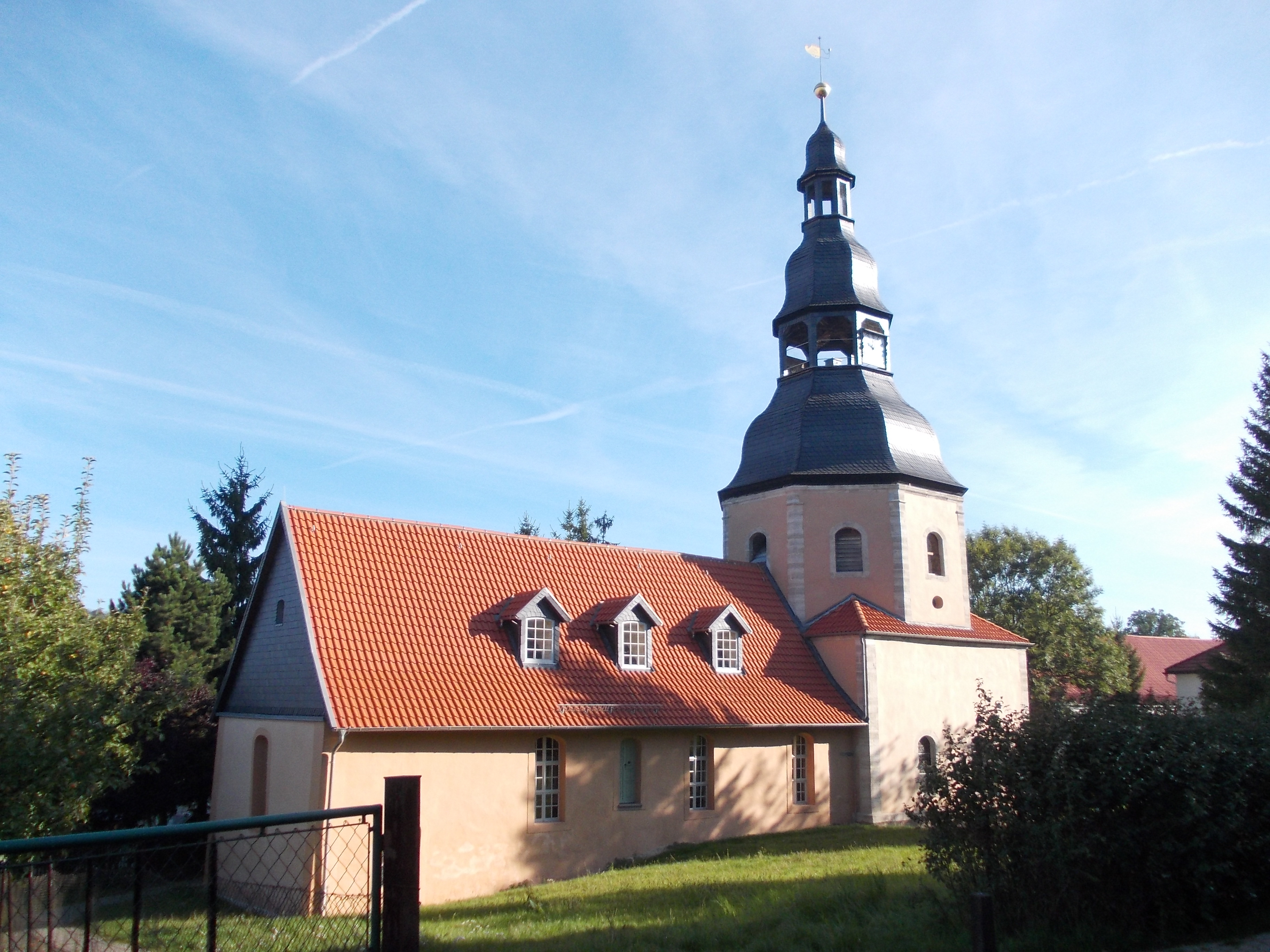 St. Martin's Church in Leimbach (Nordhausen, Thuringia)